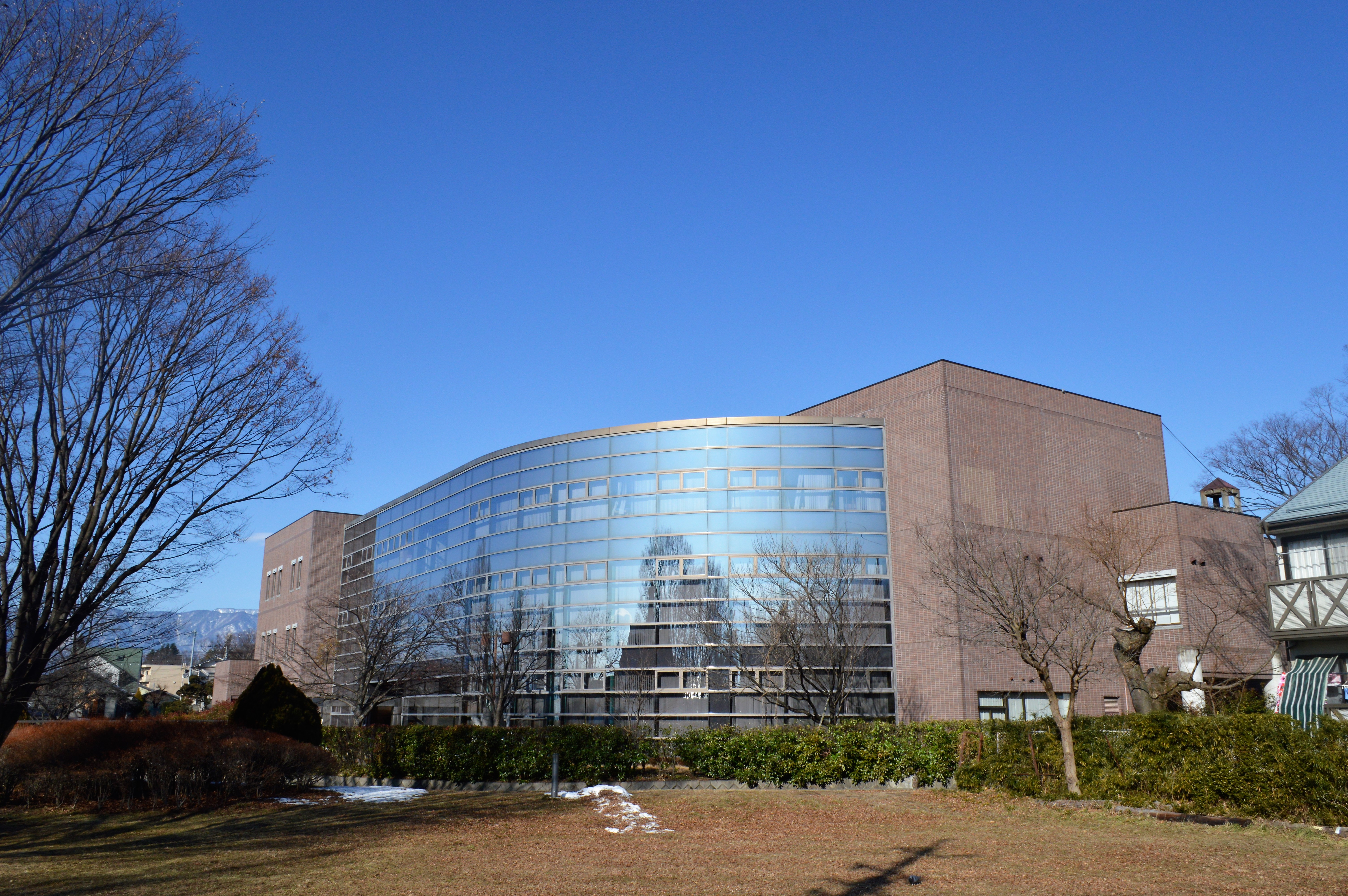 Matsumoto City Library